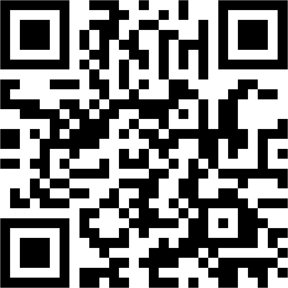 in Quick Response Coding